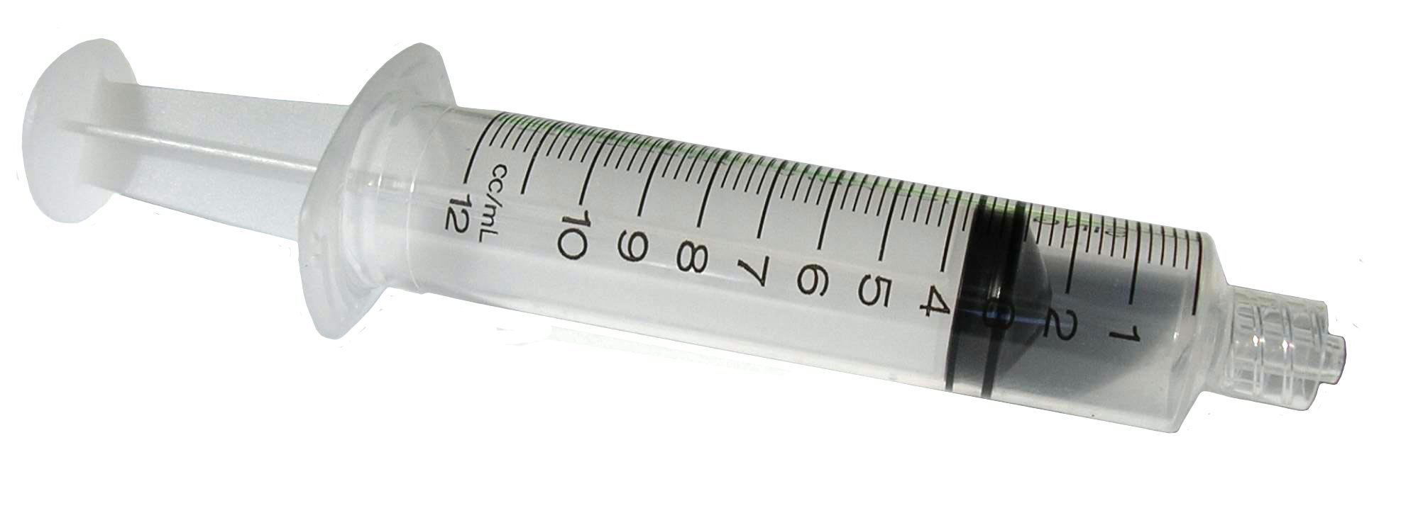 10ml Terumo (r) syringe with Luer lock tip. Manufactured in the Philippines.